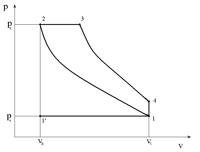 theoretical diagram of basic Diesel process